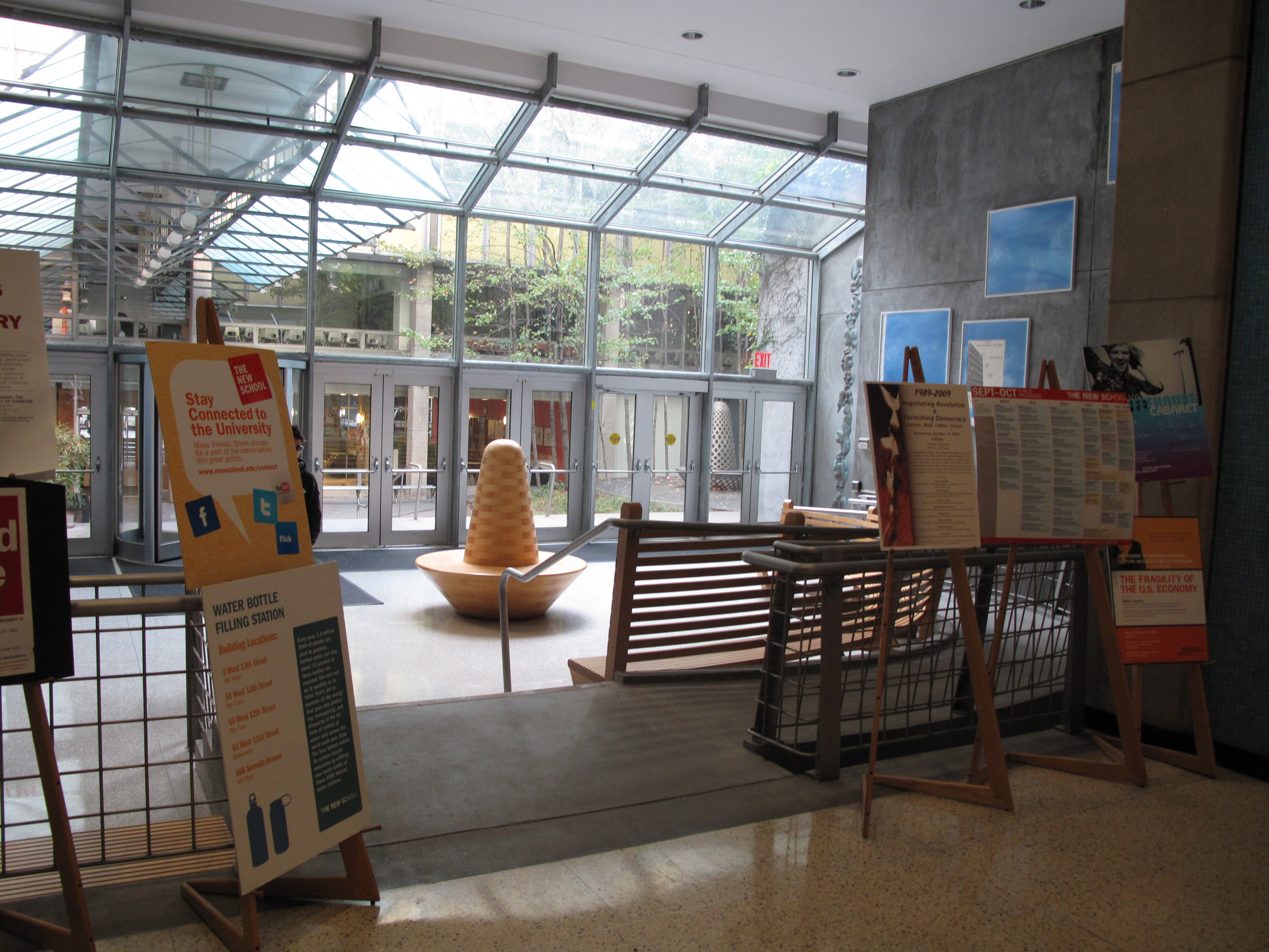 Interior of New School for Social Research in New York City